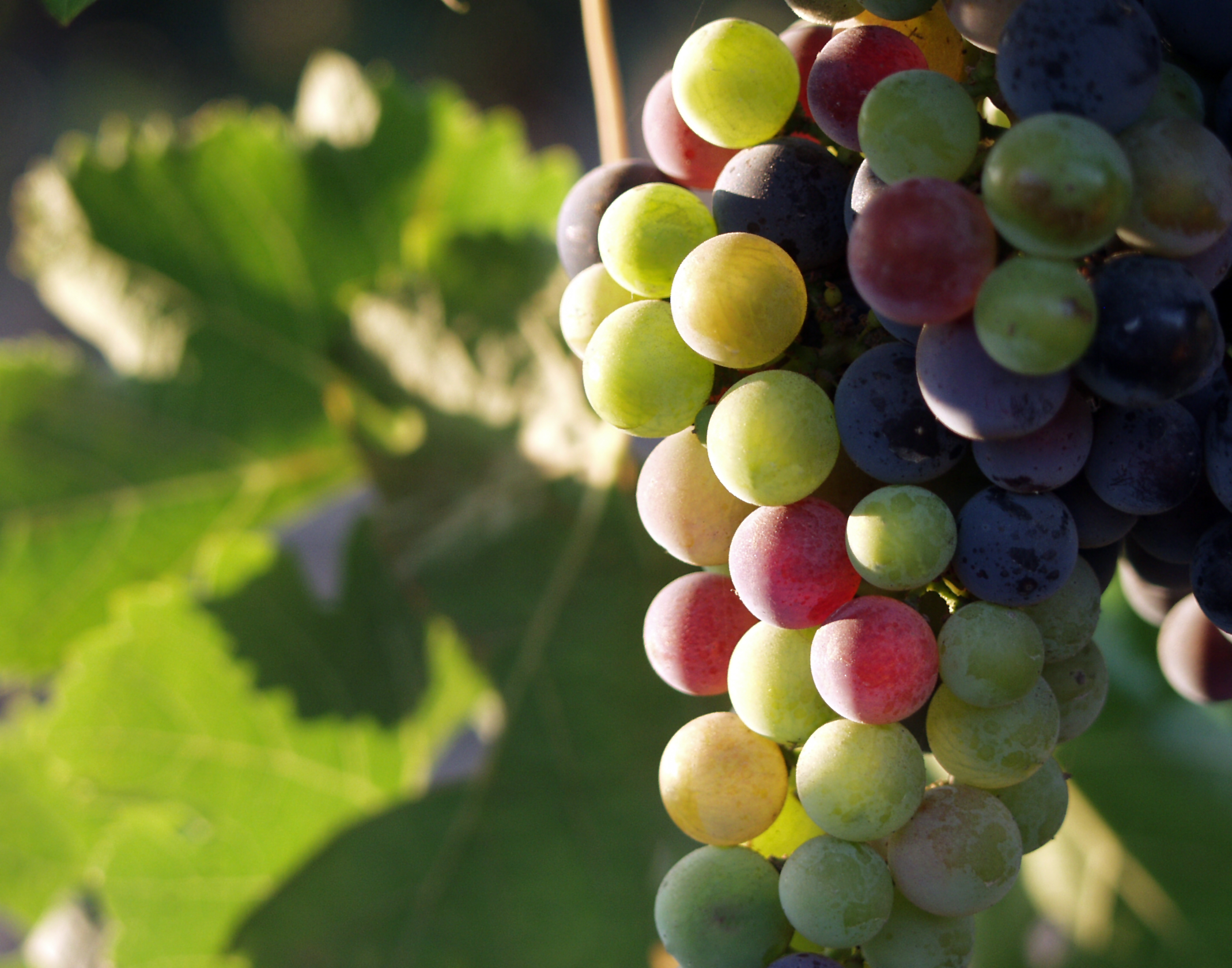 Grapes from the Guadalupe Valley, Baja California, Mexico. This region makes 95% of Mexican wine.